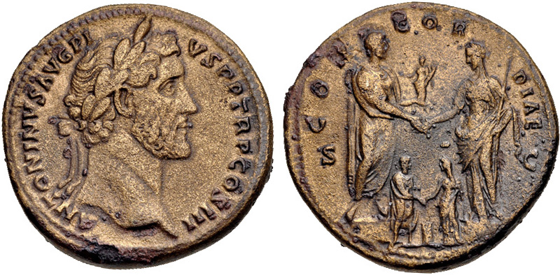 Antoninus Pius. AD 138-161. Æ Sestertius (34mm, 26.21 g, 11h). Rome mint. Struck AD 140-144. Laureate head right / Pius standing right, holding small statuette of Concordia, clasping right hands with Faustina Senior standing left, holding scepter; between them stand Marcus Aurelius and Faustina Junior, clasping hands over an altar. RIC III 601; Banti 60. VF, porous brown surfaces, reddish-brown deposits. Scarce.